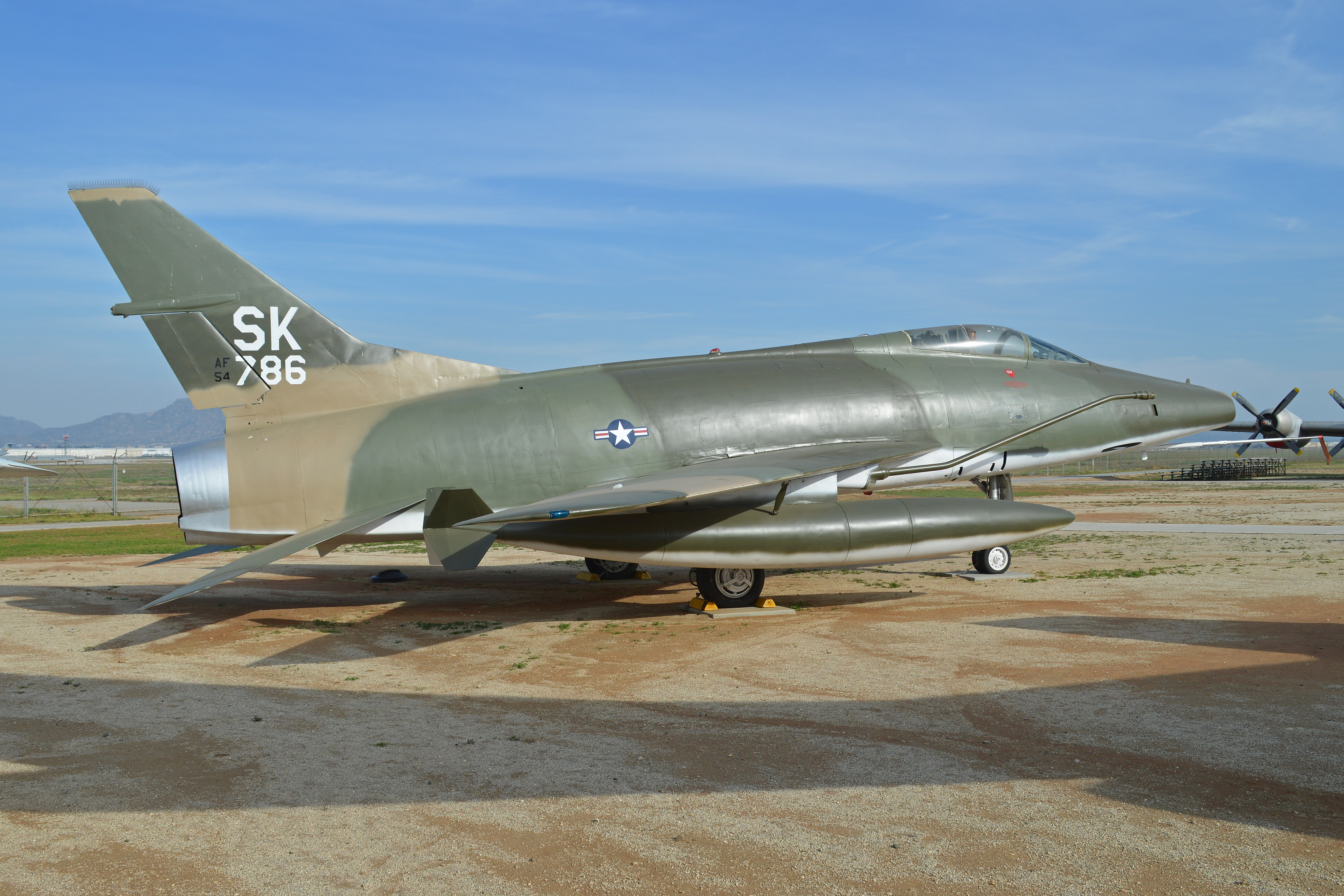 c/n 217-47. Built 1955. US military serial 54-1786. On display at the March Field Air Museum, Riverside, CA, USA. 28-2-2016